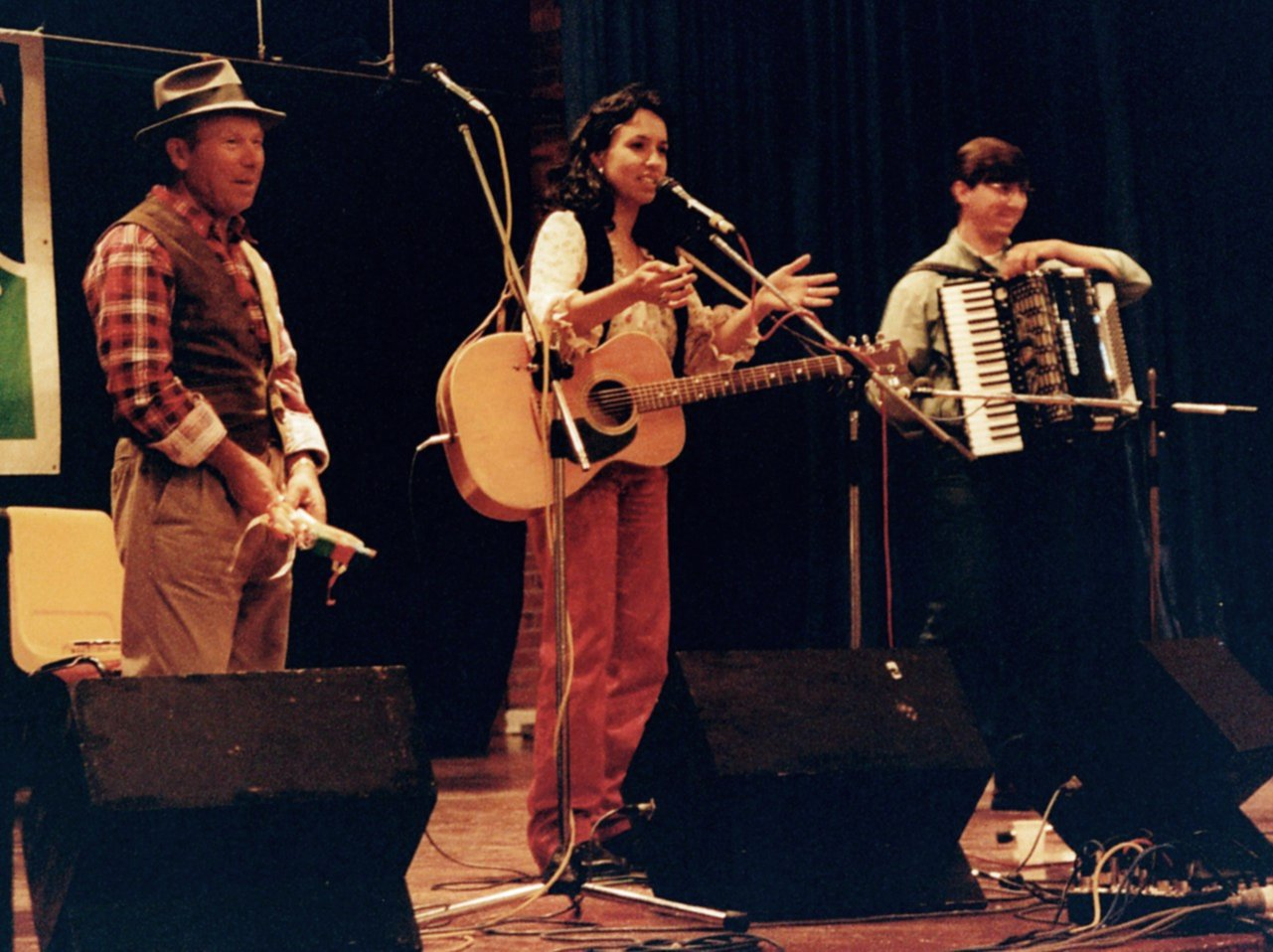 Kavisha Mazzella (Australian musician) with Aniello (Andy) and David De Santi at Georgetown Folk Festival, Australia, 1996 (Tony Rees photograph)